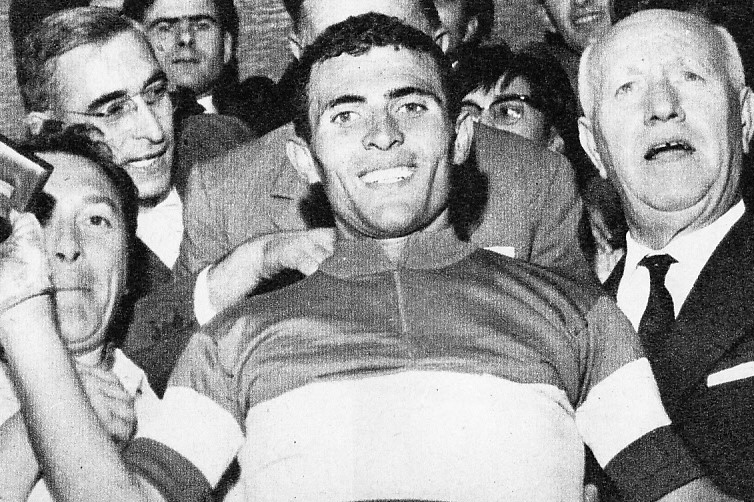 The Italian cyclist Arturo Sabbadin just after winning the Italian National Road Race Championship, September 23, 1961.